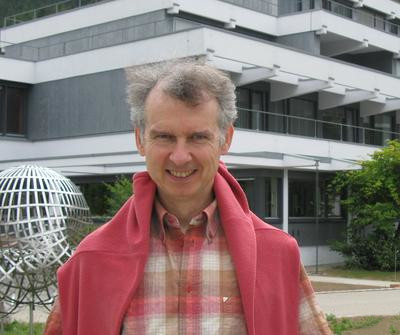 Photo of Jean-Francois Le Gall